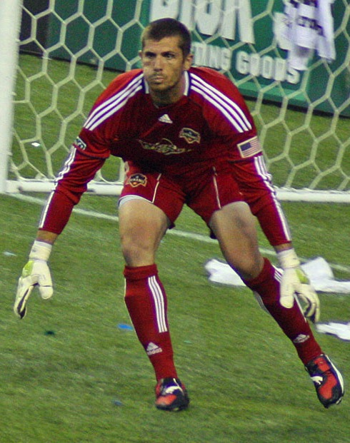 Houston Dyanmo goalkeeper Tally Hall